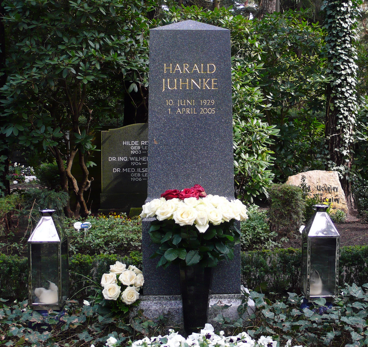 Tomb of H Juhnke